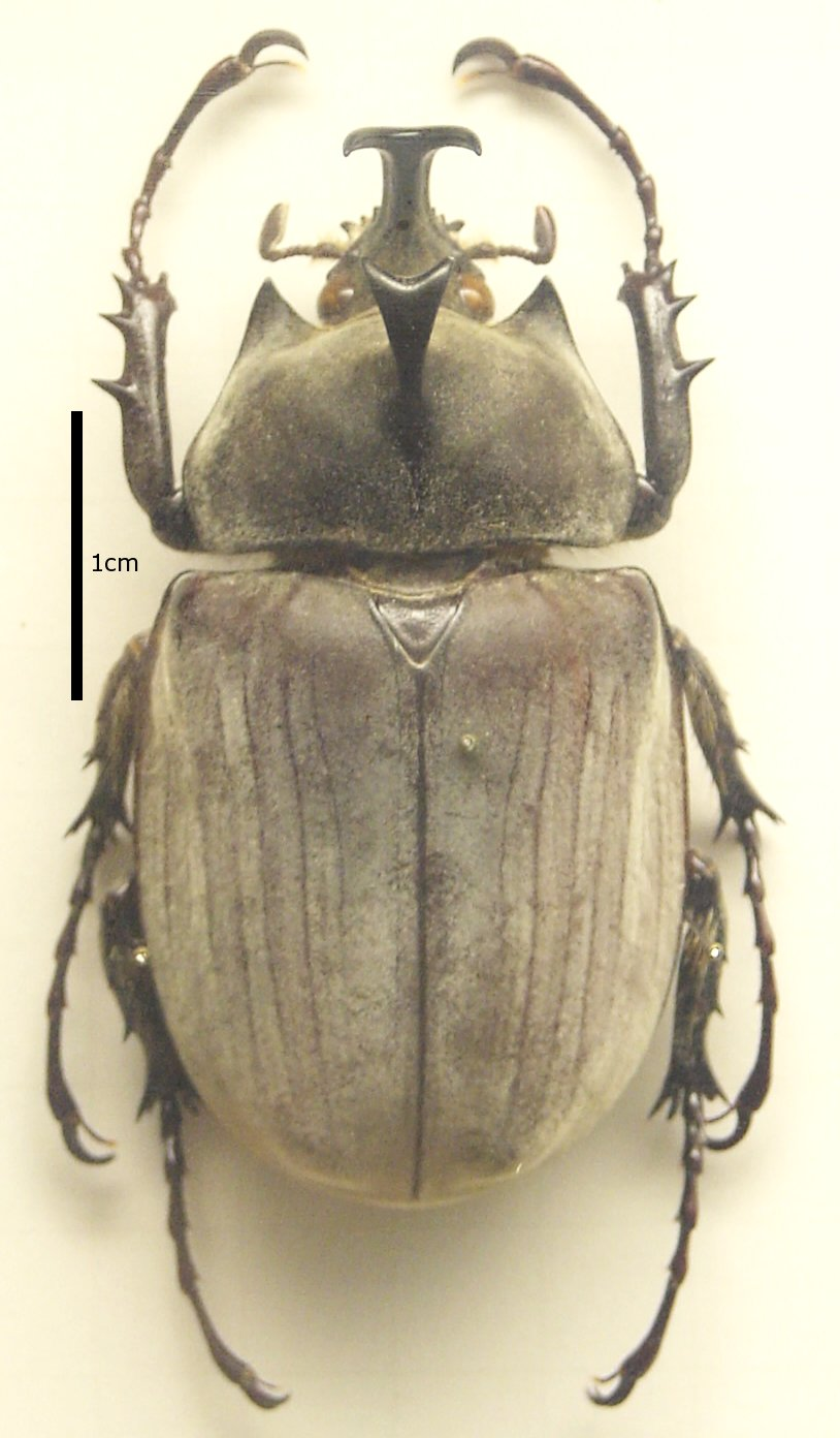 Megasoma hector (Scarabaeidae), mounted specimen from Brazil.